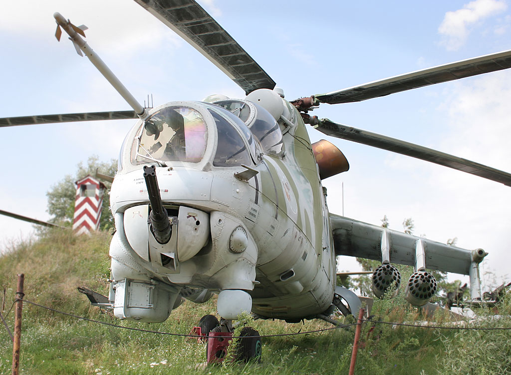 Mil Mi-24 Hind D at a museum in Warzaw, Poland